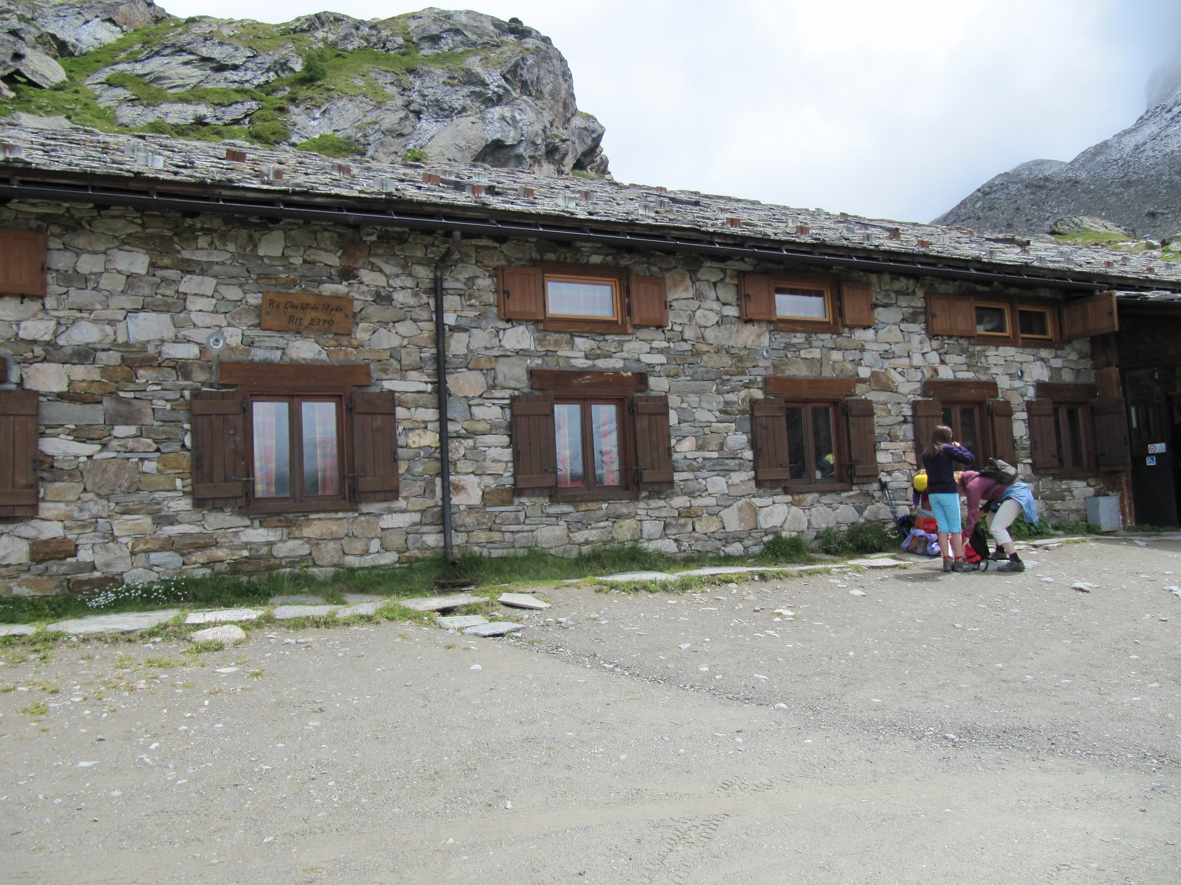 Rifugio Chalet d'Epée - mountain hut in the Valle d'Aosta